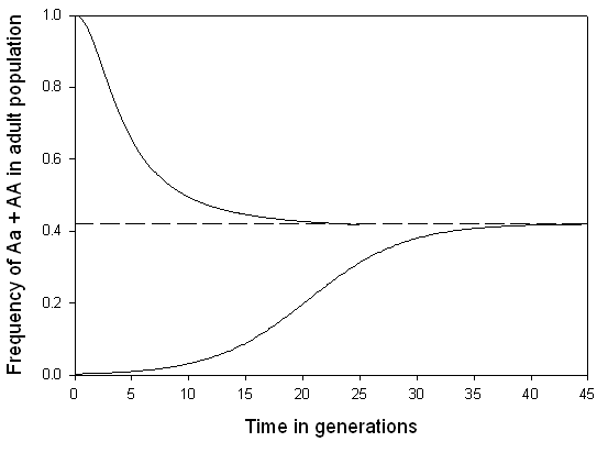 The calculated rate at which the frequency of a newly mutated sickle-cell gene will increase in a population exposed to intense malarial selection. The change over generations in the sickle-cell heterozygote (Aa) + homozygote (AA) frequency in the adult population that would occur from a low level (recent mutation) or a high level (unlikely founder event in a small population) when the fitnesses of the normal homozygote, sickle-cell heterozygote and sickle-cell homozygote are 0.95, 1.19 and 0.30, respectively. Based on data published in Allison AC (1955). "Aspects of polymorphism in man". Cold Spring Harb Symp Quant Biol 20: 239-251.